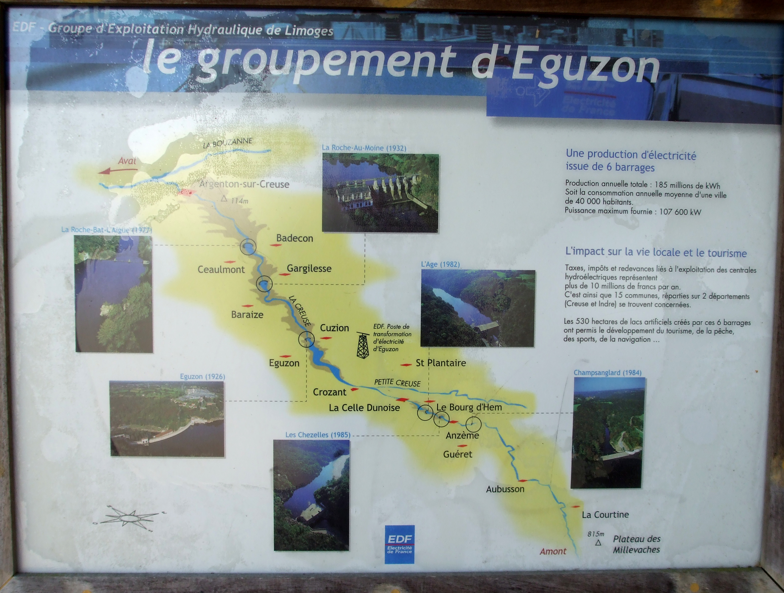 A sign at a viewing point near the top of Eguzon Dam